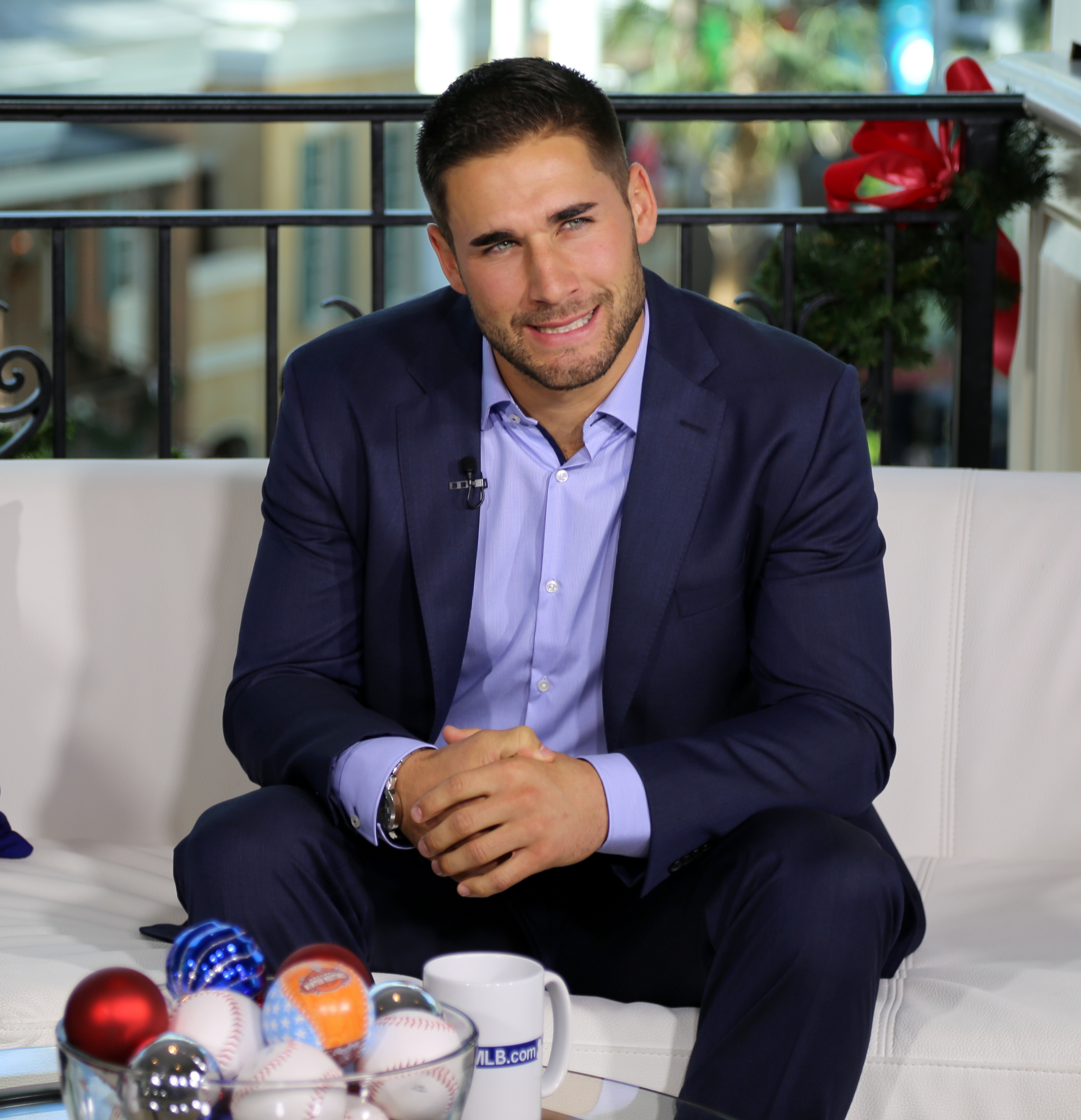 Kevin Kiermaier talks to at the #WinterMeetings.